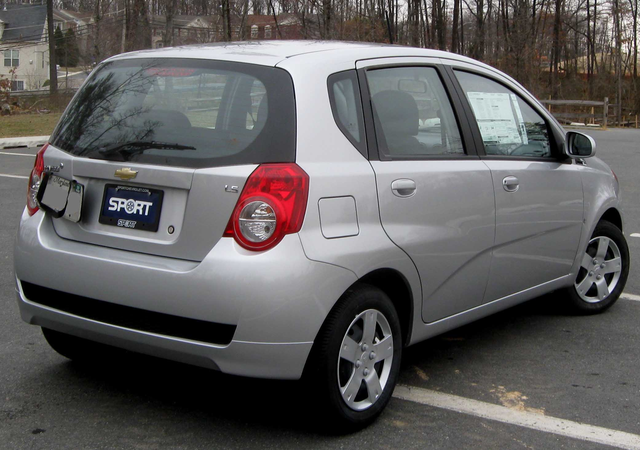 2009 Chevrolet Aveo5 photographed in Silver Spring, Maryland, USA.